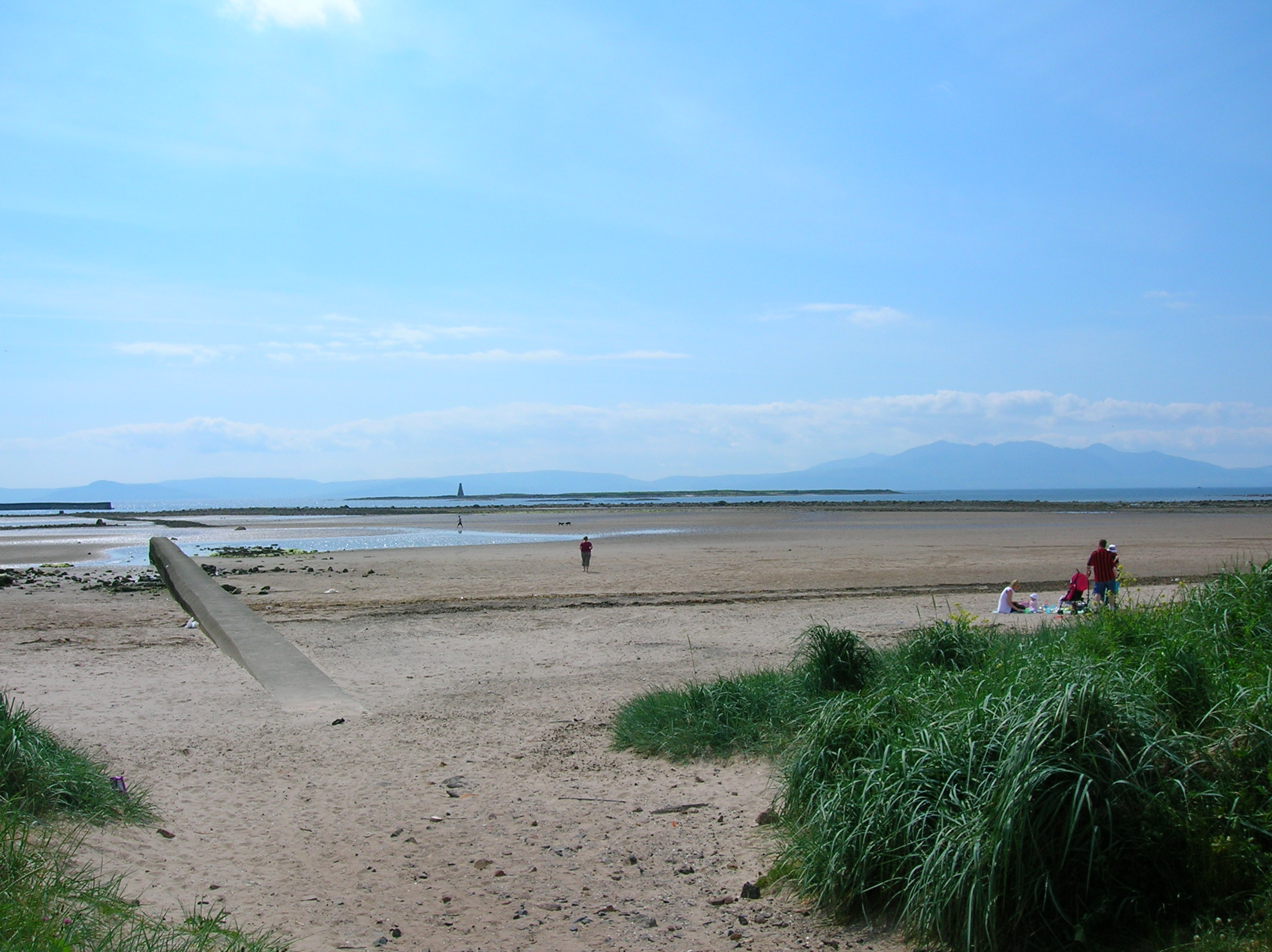 Ardrossan harbour from the North Shore. Ayrshire. Scotland.